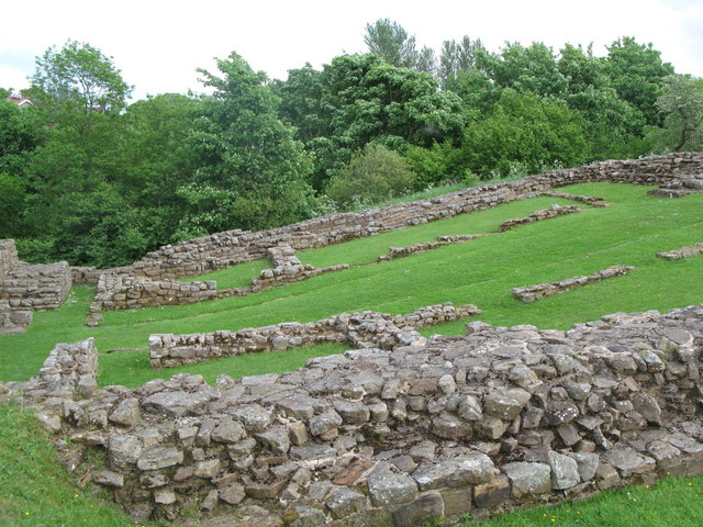 Milecastle 48 (Poltross Burn) (2)